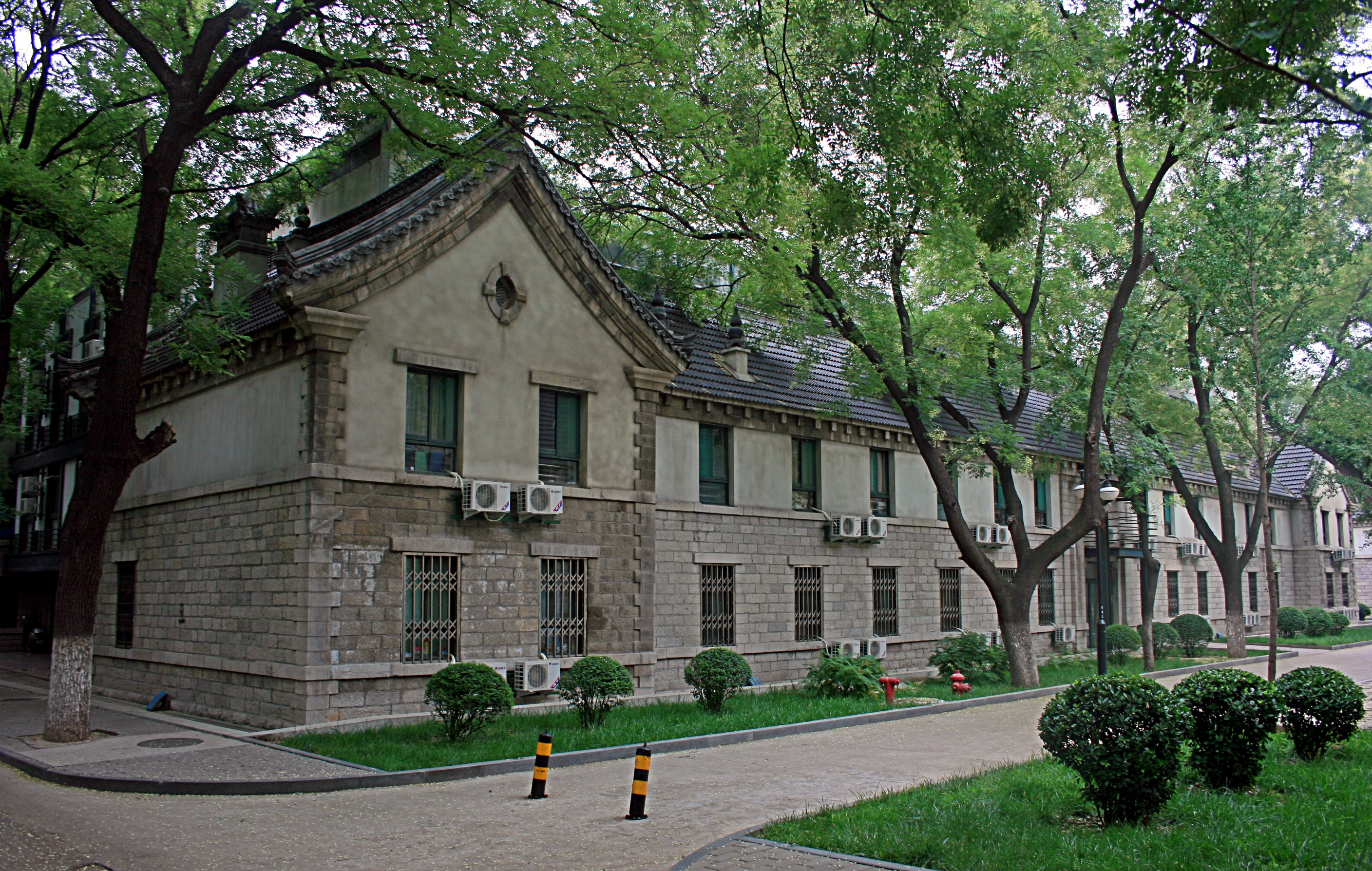 Apartments for foreign students on the Baotuquan Campus of Shandong University, Jinan, China